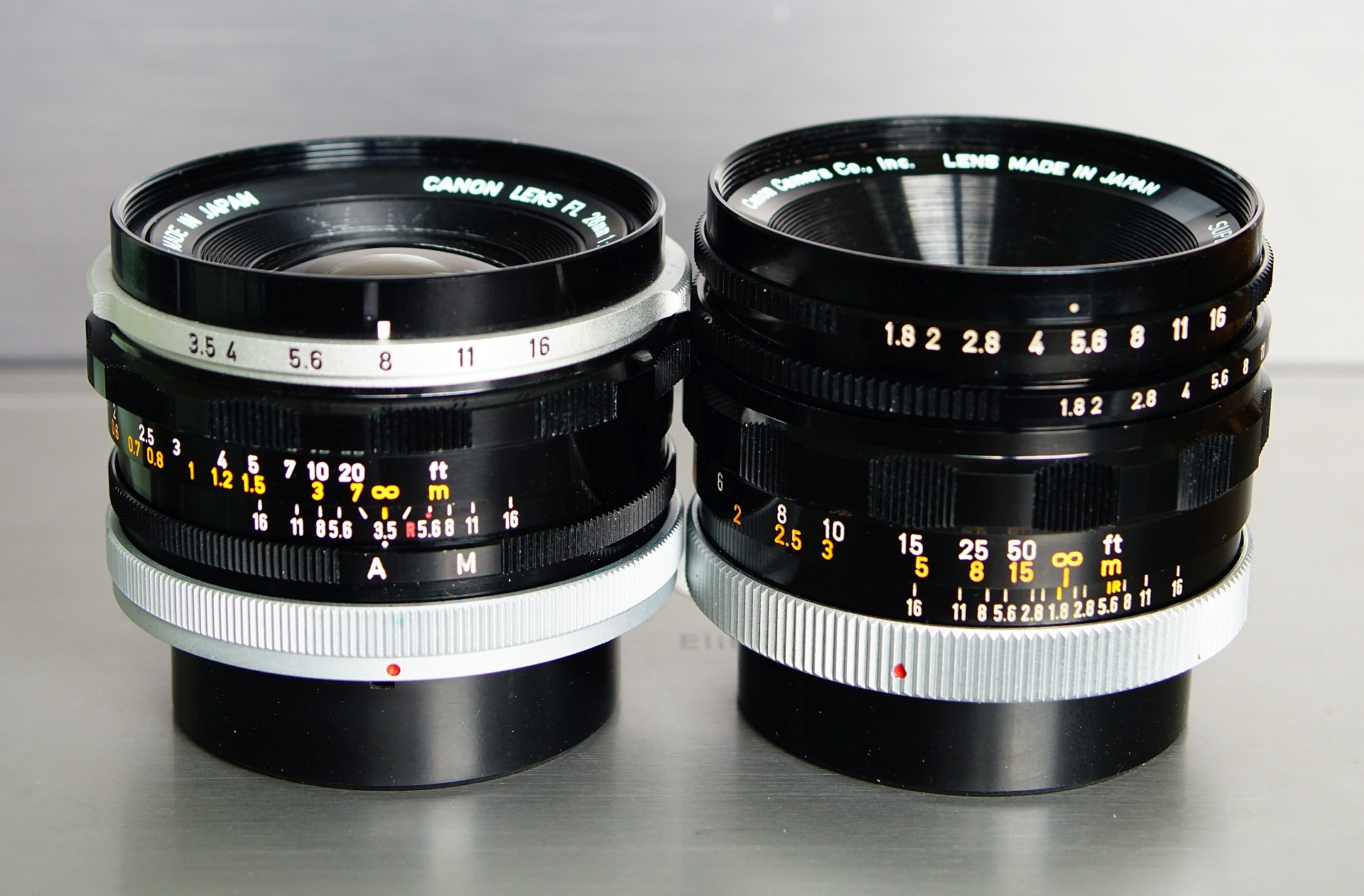 Front comparison of Canon FL 28mm lens versus the older R lens 50mm called Super-Canomatic lens, the first and second variant of Canon's breech-lock type of SLR lenses.